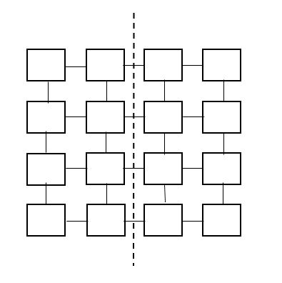 diagram showing bisection of a mesh network